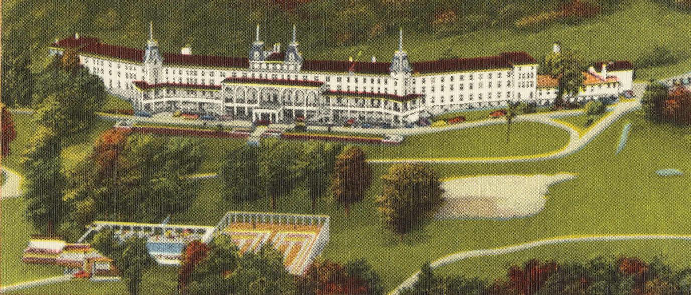 File name: 06_10_005138 Title: The Grand Hotel, Highmount, N. Y. "Your castle in the sky" Created/Published: "Tichnor Quality Views" Reg. U.S. Pat. Off., Made only by Tichnor Bros., Inc., Boston, Mass. Date issued: 1930 - 1945 (approximate) Physical description: 1 print (postcard) : linen texture, color ; 3 1/2 x 5 1/2 in. Genre: Postcards Subjects: Hotels Notes: Title from item. Collection: The Tichnor Brothers Collection Location: Boston Public Library, Print Department Rights: No known restrictions